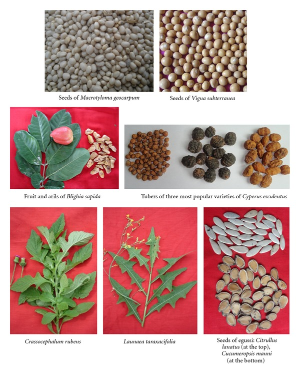 Pictures of selected neglected and underutilized crop species in Benin.